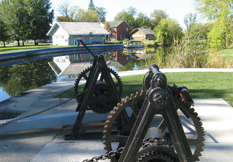 The Rideau Canal locks at Merrickville, Ontario, Canada.